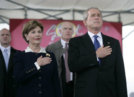 President George W. Bush and Mrs. Laura Bush stand for the National Anthem during the Christening Ceremony of the George H.W. Bush (CVN 77) in Newport News, Virginia, Saturday, Oct. 7, 2006. White House photo by Eric Draper